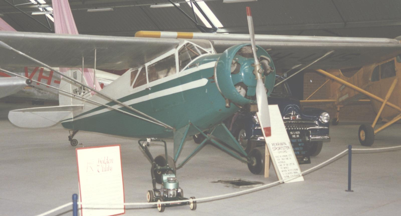 Rearwin 9000 Sportster VH-UYS displayed in the Drage Airworld aviation museum at Wangarratta, Victoria, Australia